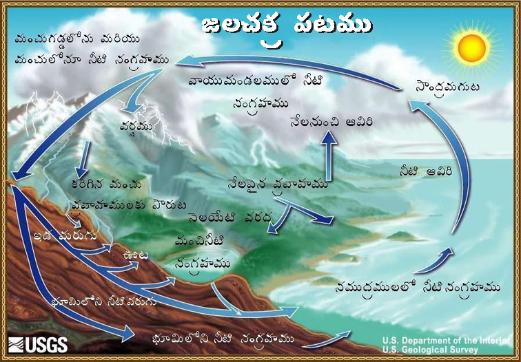 Water-Cycle Diagram (Telugu)